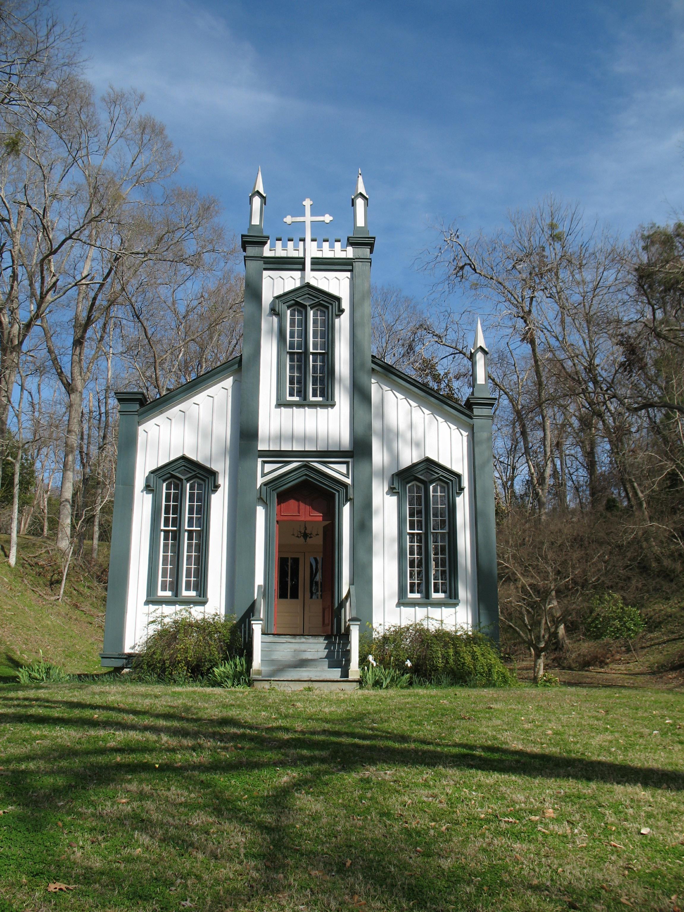 Confederate Memorial Chapel, formerly Rodney Sacred Heart Catholic Church built in 1869. The building was donated to the state of Mississippi by the Rodney Foundation and moved to its current site in Grand Gulf Military State Park in 1983.